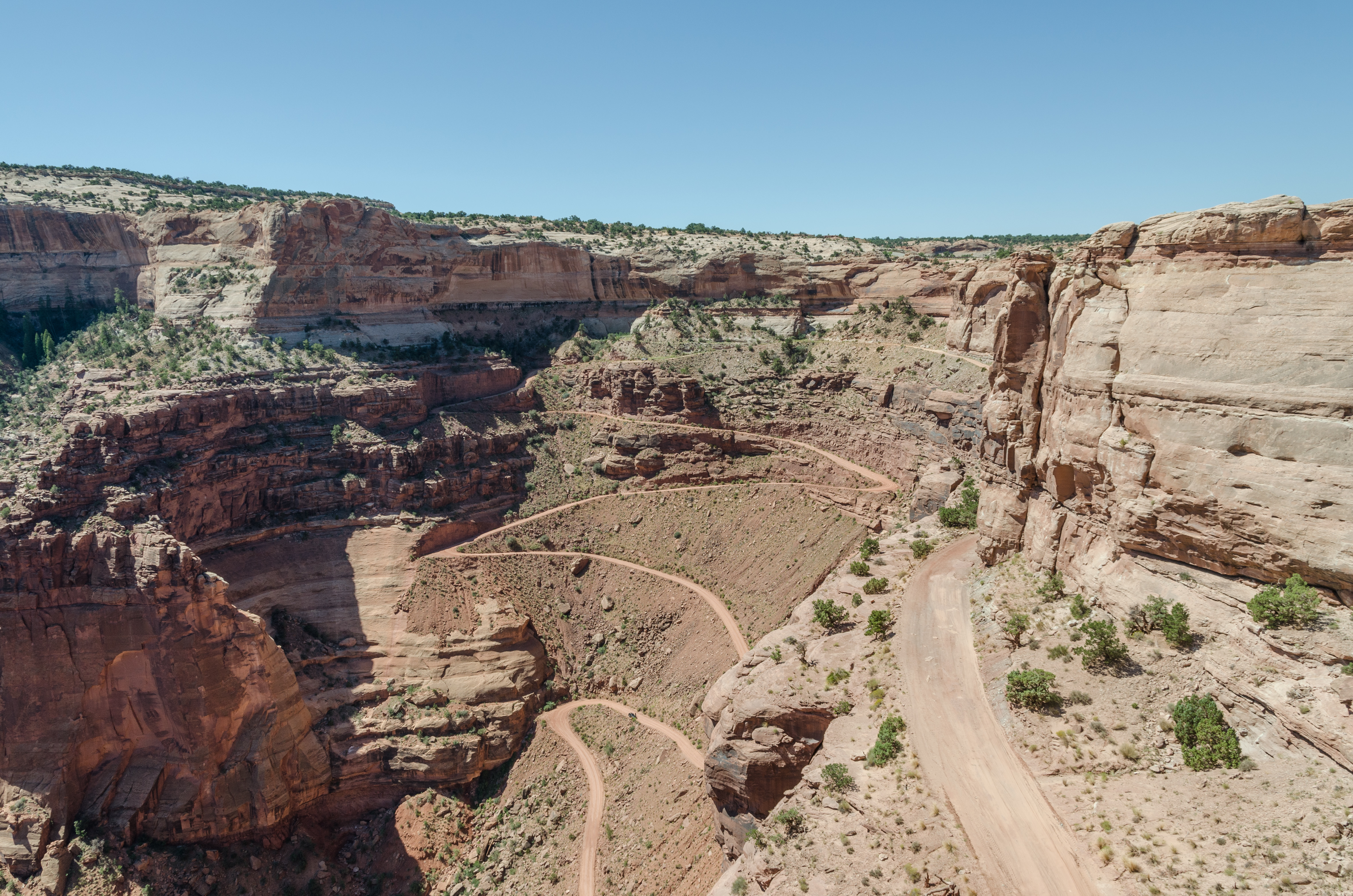 Shafer Canyon Road as seen from Shafer Canyon Outlook, Island in the Sky district, Canyonland Natl. Park